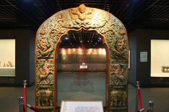 An excavated portion of the Chinese Ming Dynasty (1368-1644 AD) doorway of the now destroyed Porcelain Tower of Nanjing, built during the reign of the Yongle Emperor (1402-1424 AD).